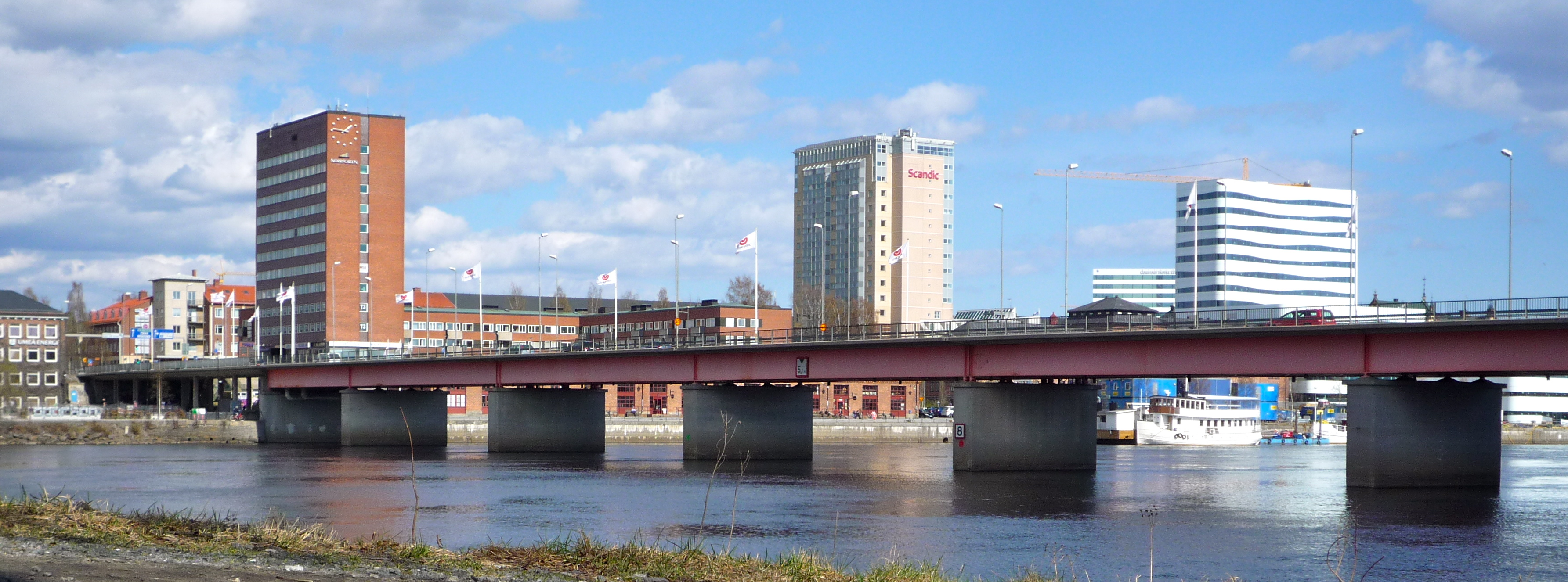 Tegsbron, from southwest